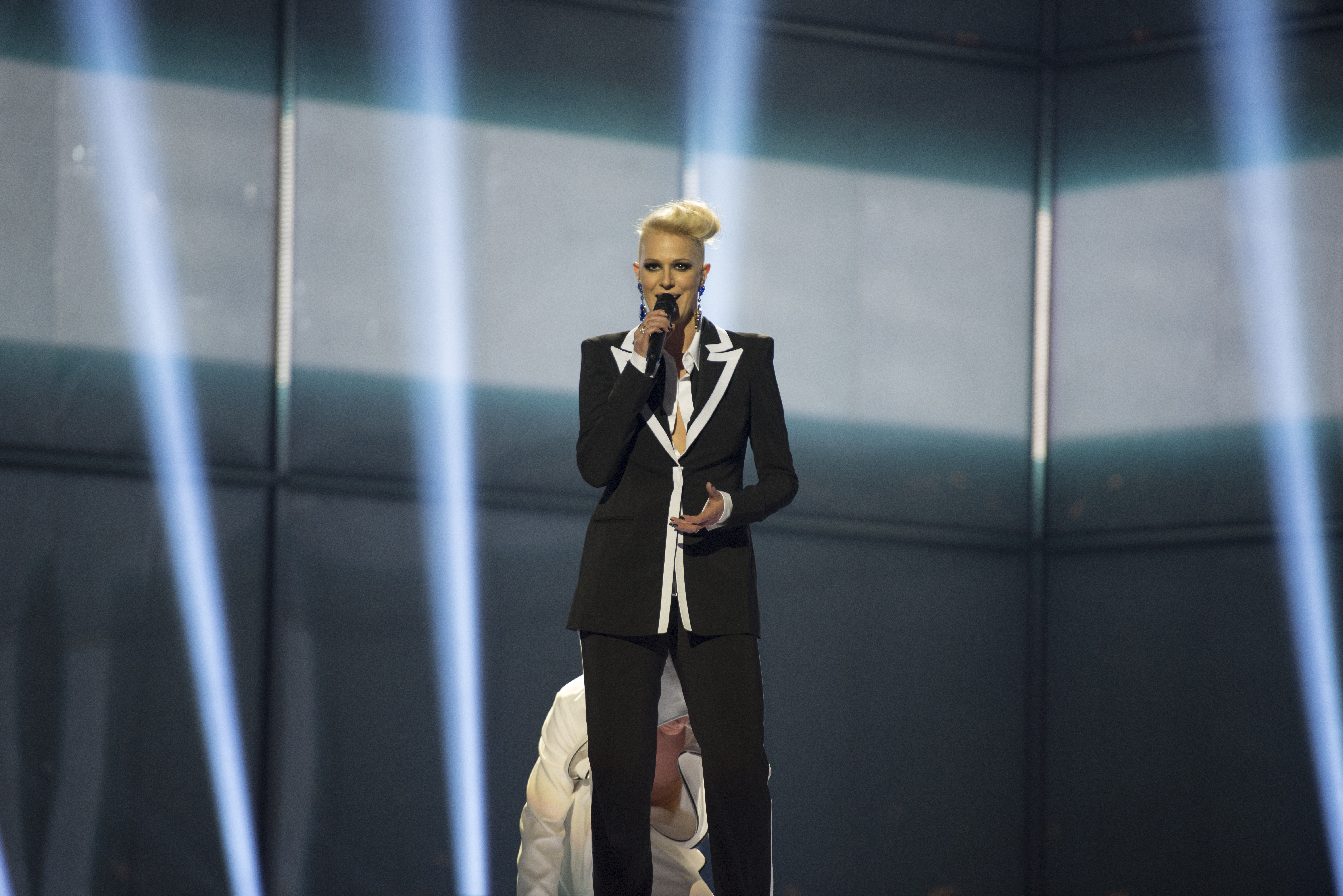 Tijana Todevska-Dapčević representing North Macedonia with the song "To the Sky" during the first dress rehearsal of the second semi final of the Eurovision Song Contest 2014 Copenhagen. (Help translate this text)